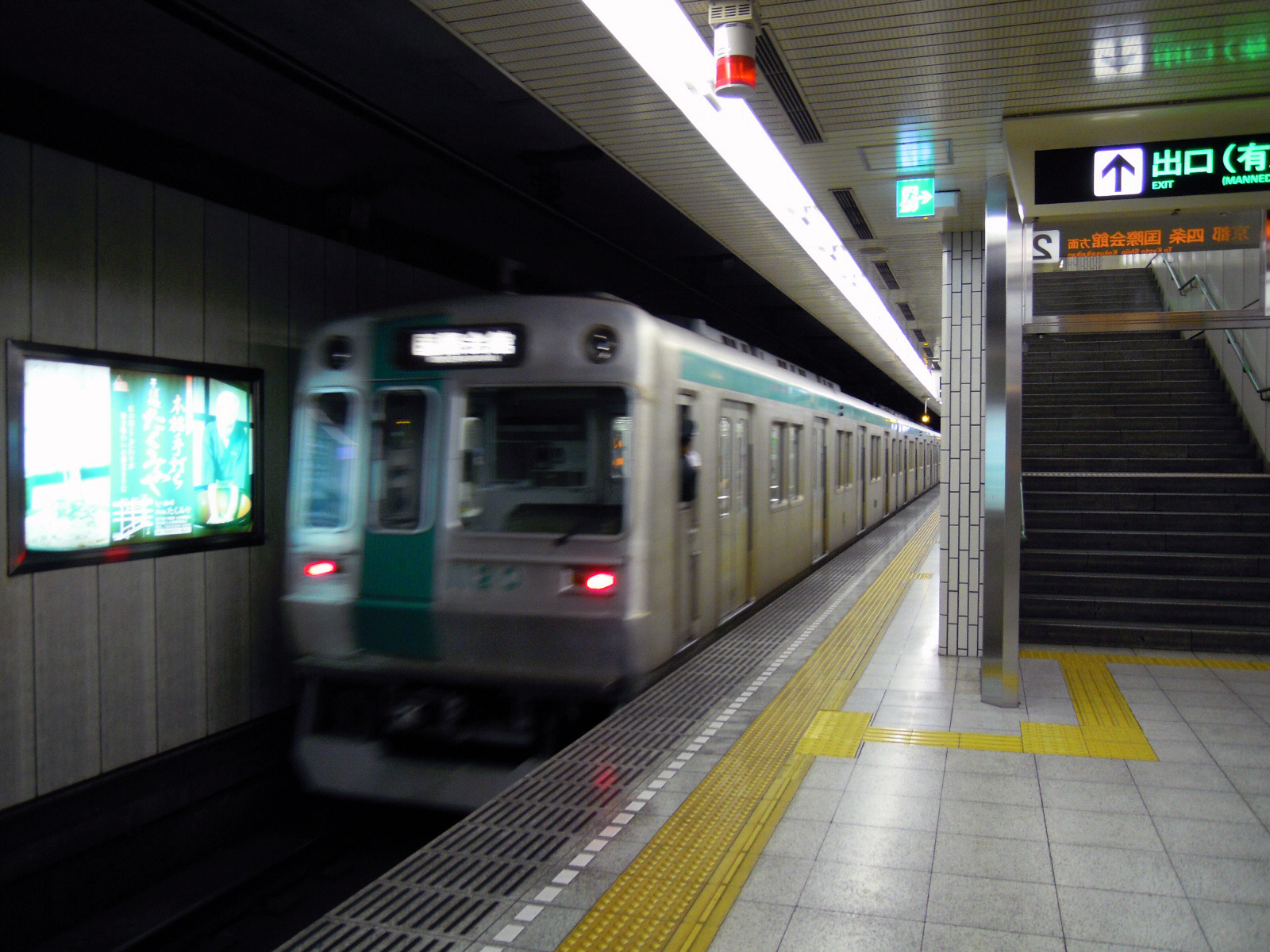 Kyoto City Subway Karasuma Line Jujo station platform